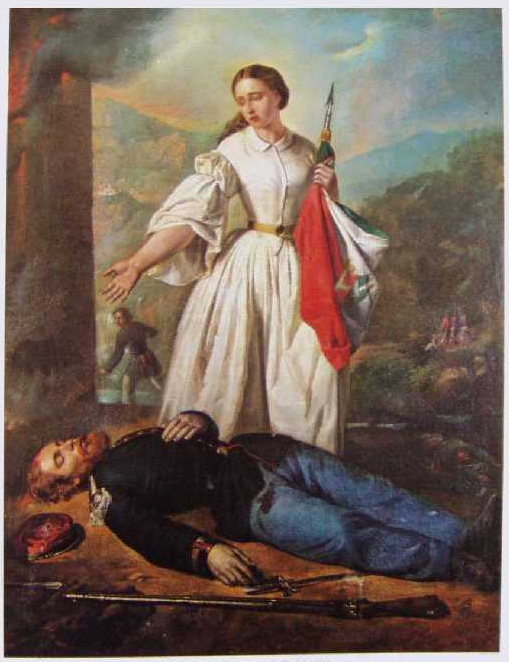 Italy looking killed officier of "Guardia Nazionale"